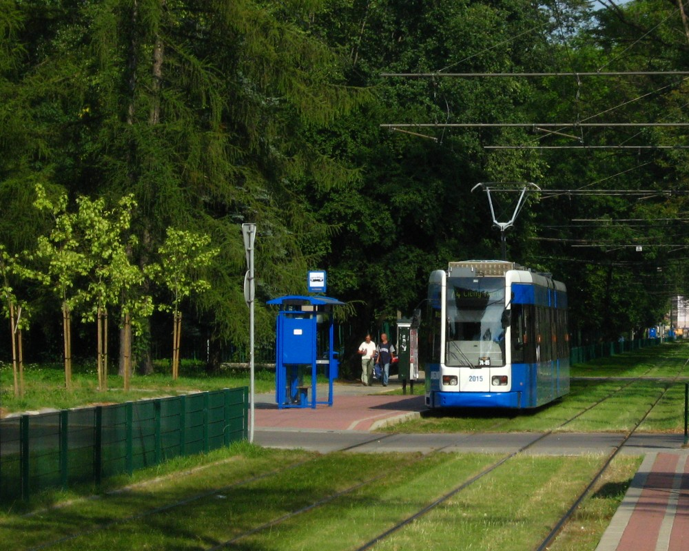 Bombardier NGT6 tram in Kraków, Poland.